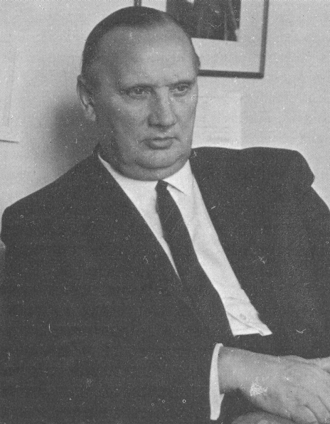 Photograph of the Finnish musicologist John Rosas (1908–1984).